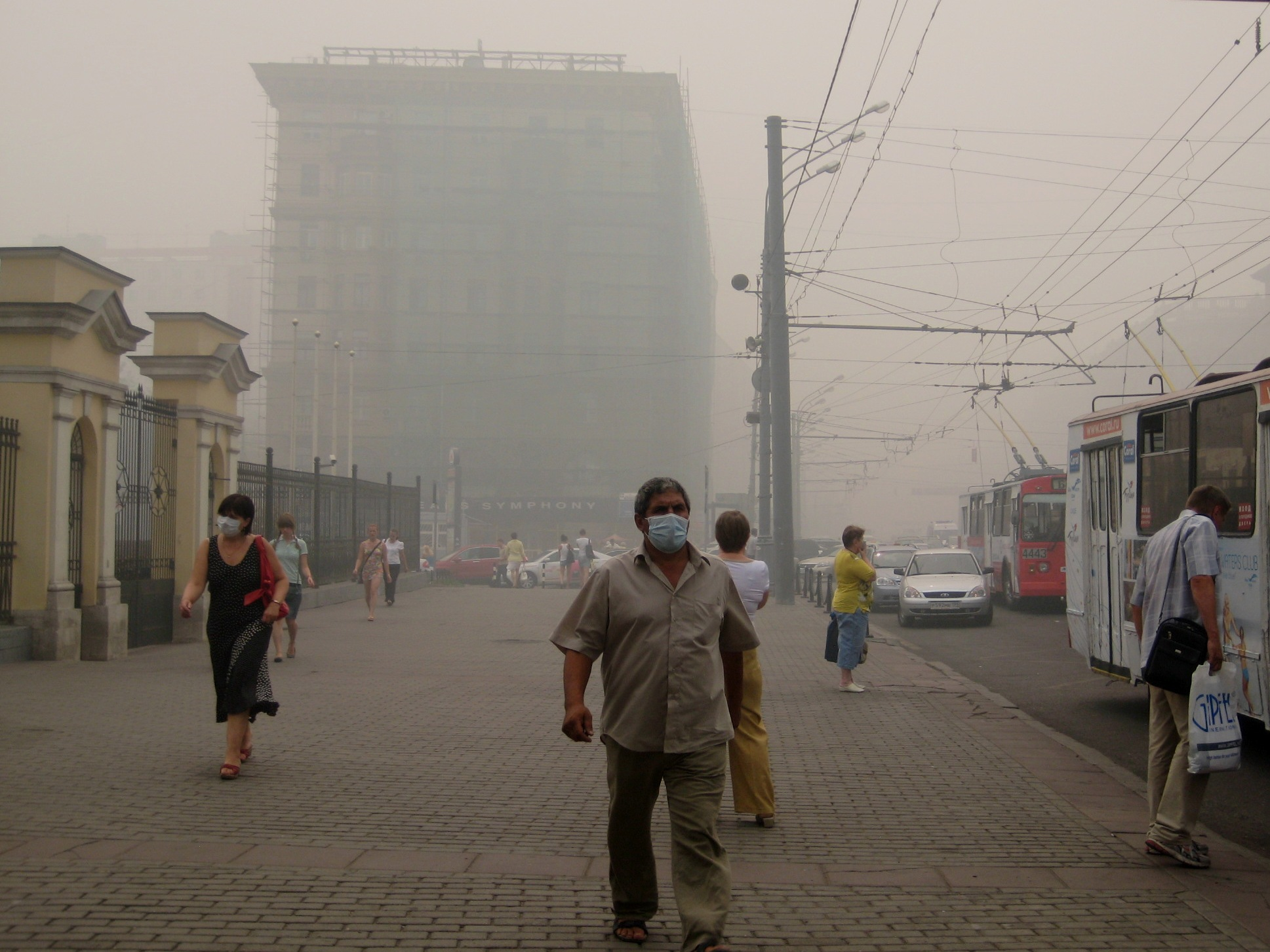 Smog in the centre of Moscow (Kurskya metro station). 6 August 2010, 1:49 pm